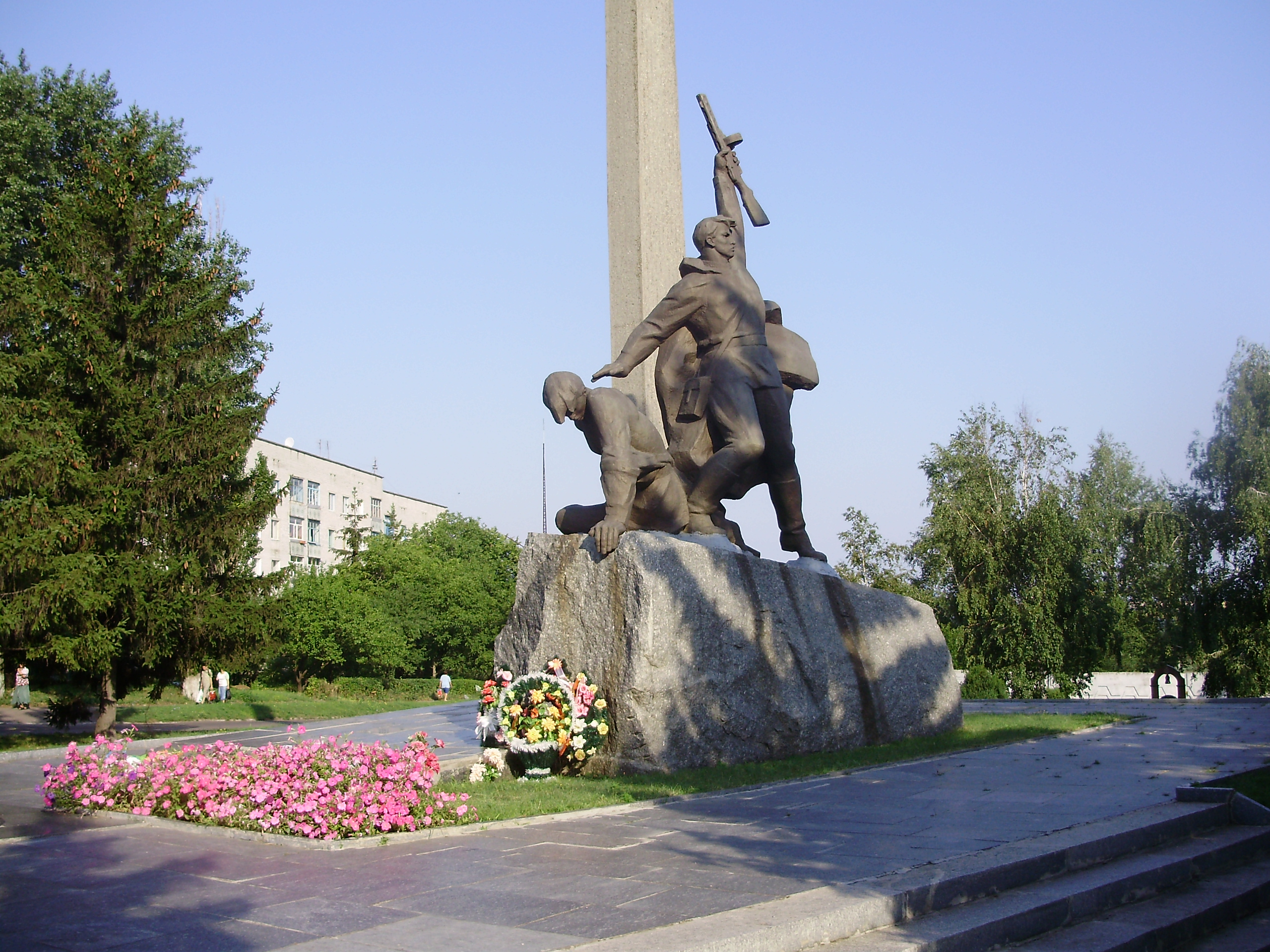 Glory memorial in Verkhnodniprovsk